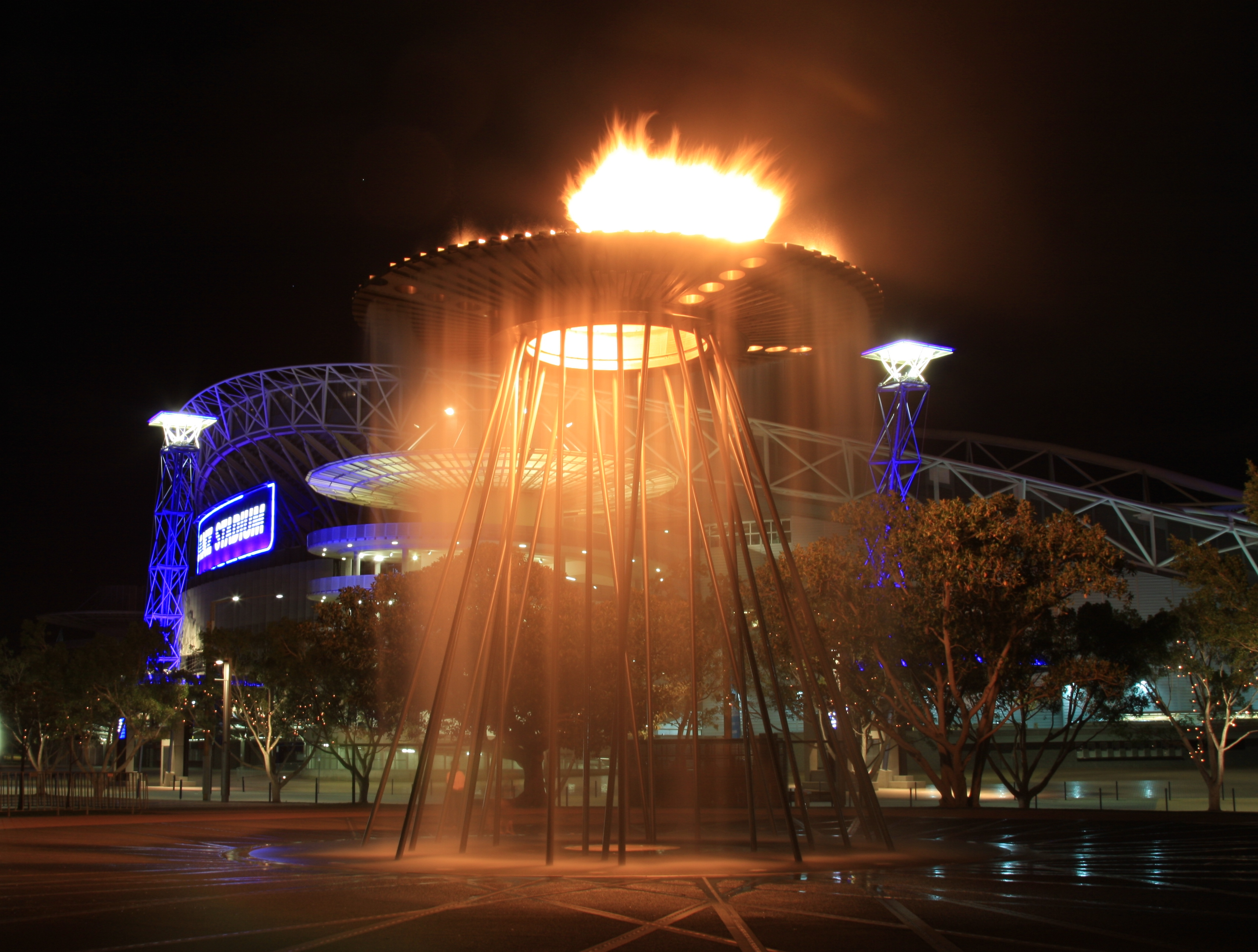 Sydney Olympic Park at night with fiery couldren